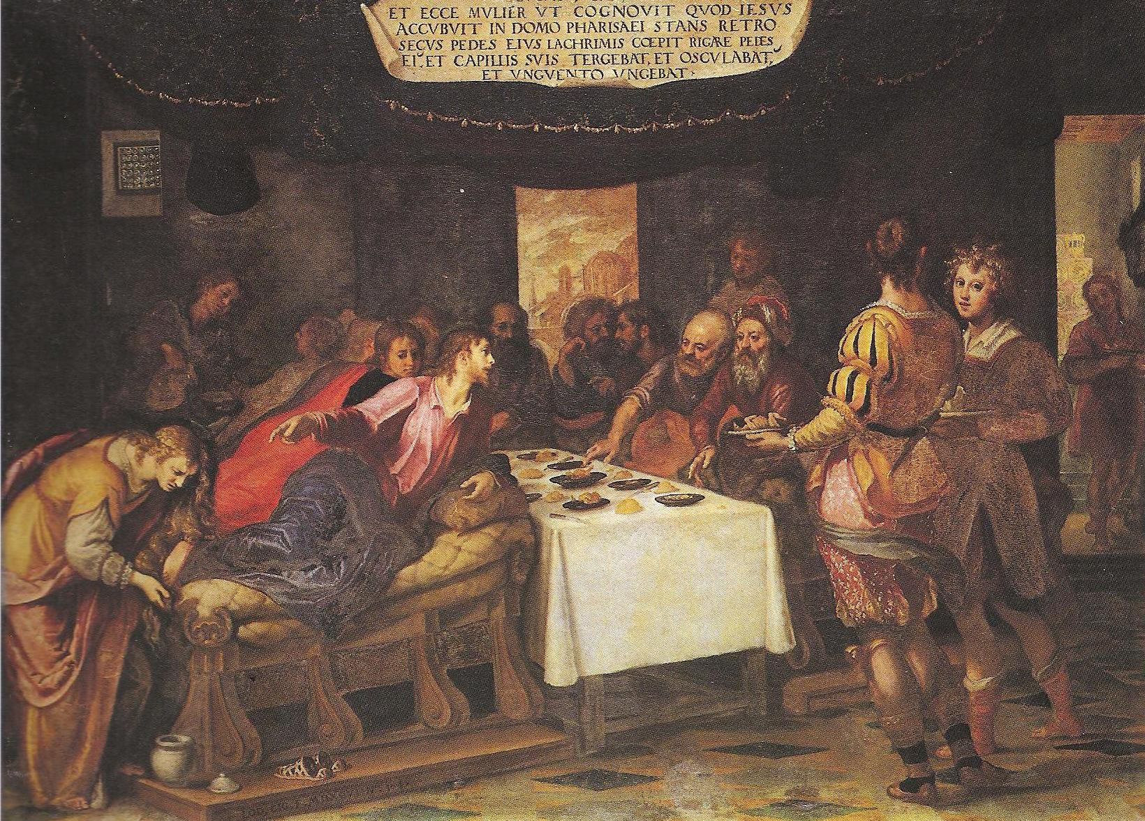 Opere del Cigoli